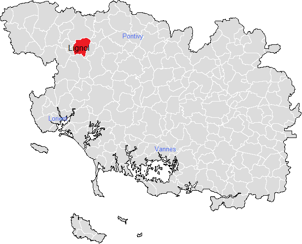 placement Lignol in Morbihan departement